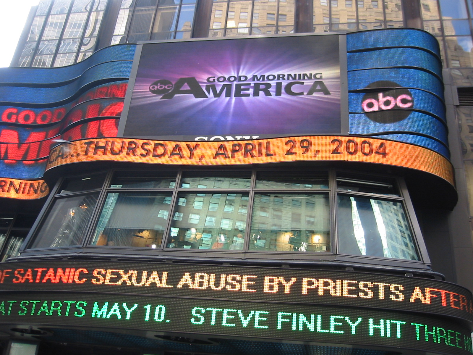 Good Morning America is a tv show that's broadcasted from Times Square.